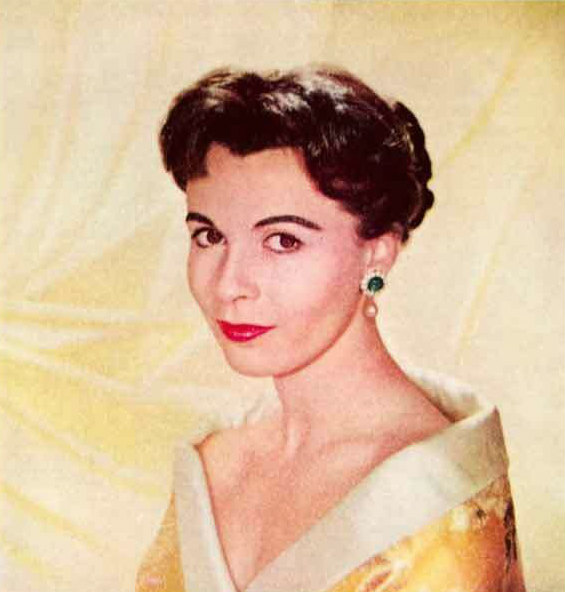 Photo of Claire Bloom from a 1958 Lux soap print advertisement. Bloom was starring in The Buccaneer (1958 film) at the time. There are no copyright marks on the ad. The copy under the photo reads "so beautiful...a Lux complexion". Any magazine copyrights before expiration did not apply to the ad: US Copyright Office page 3-magazines are collective works (PDF) "A notice for the collective work will not serve as the notice for advertisements inserted on behalf of persons other than the copyright owner of the collective work. These advertisements should each bear a separate notice in the name of the copyright owner of the advertisement." was also checked for renewals. The only two renewals which pertained to the Lever Lux brand of soaps were for some episodes of the television and radio programs Lux Video Theatre and Lux Radio Theatre. There were no renewals for Lever Brothers-Lux.